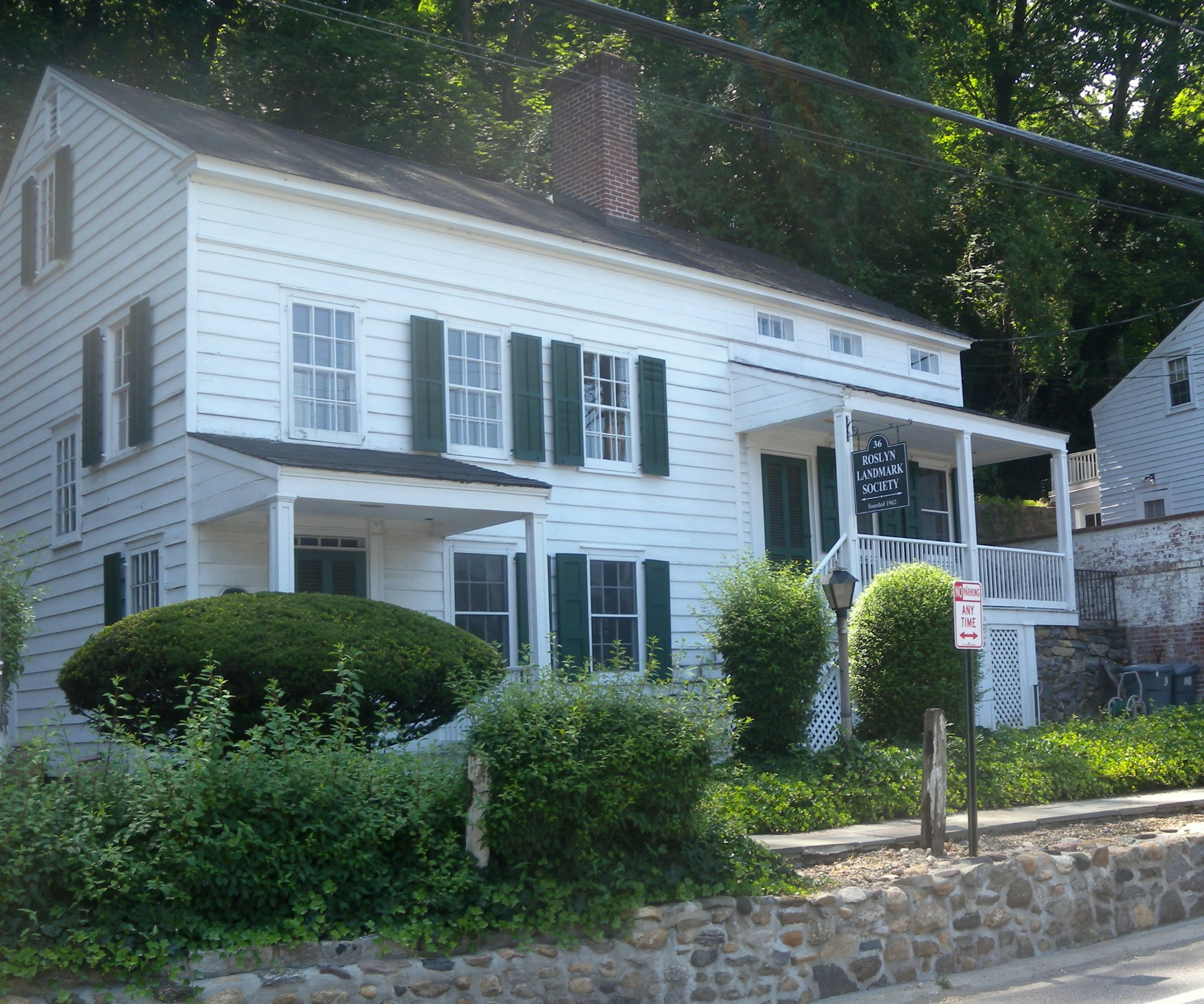 Looking northwest from Main Street at Roslyn Landmark Society on a sunny early afternoon.